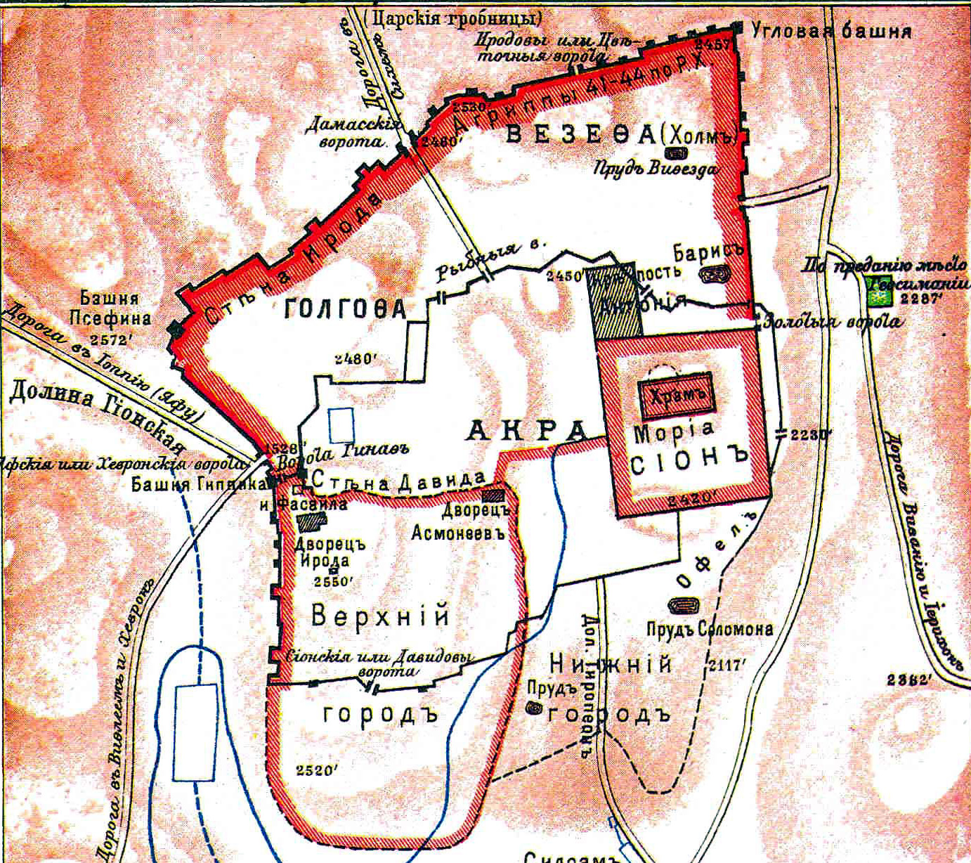 Illustration from Brockhaus and Efron Encyclopedic Dictionary (1890—1907)